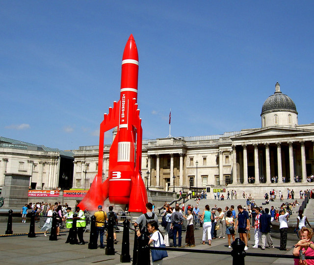 Thunderbirds are go! Trafalgar square with exhibition.